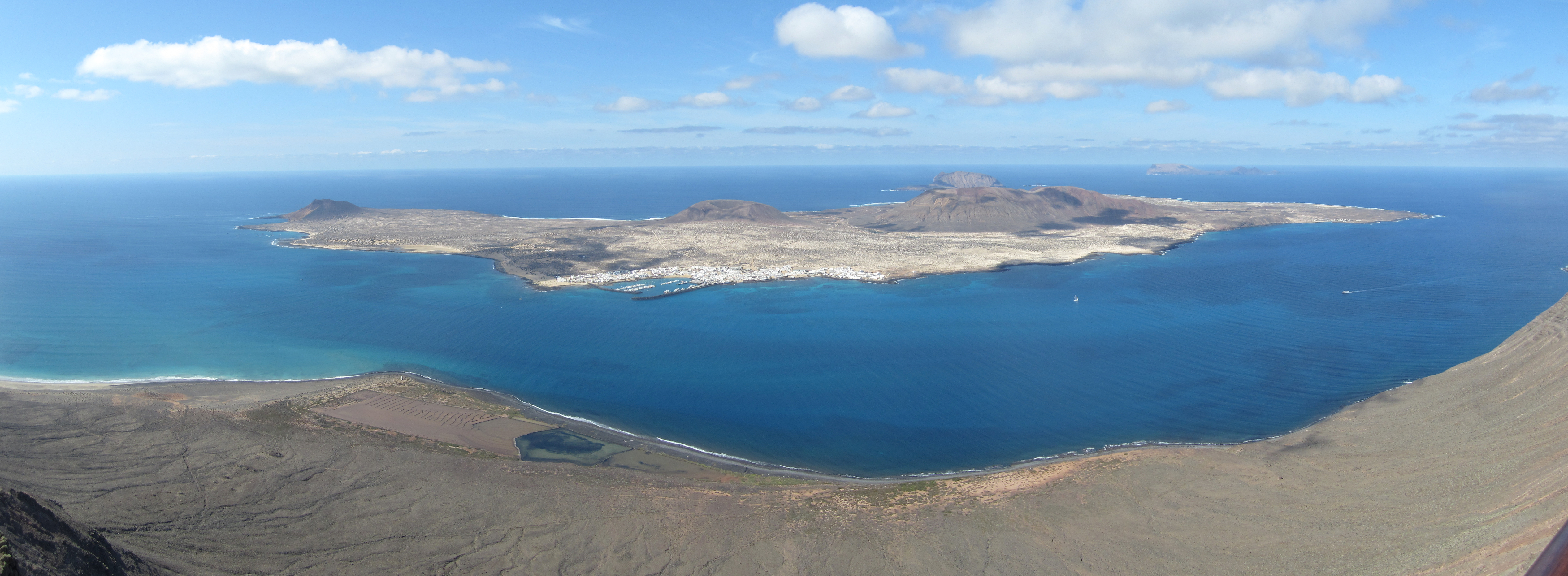 Island of La Graciosa and the rest of the Chinijo Archipelago as seen from Mirador del Río in Lanzarote. This is a photography of a Special Area of Conservation in Spain with the ID: ES7010045. Natura2000 entry, EEA entry